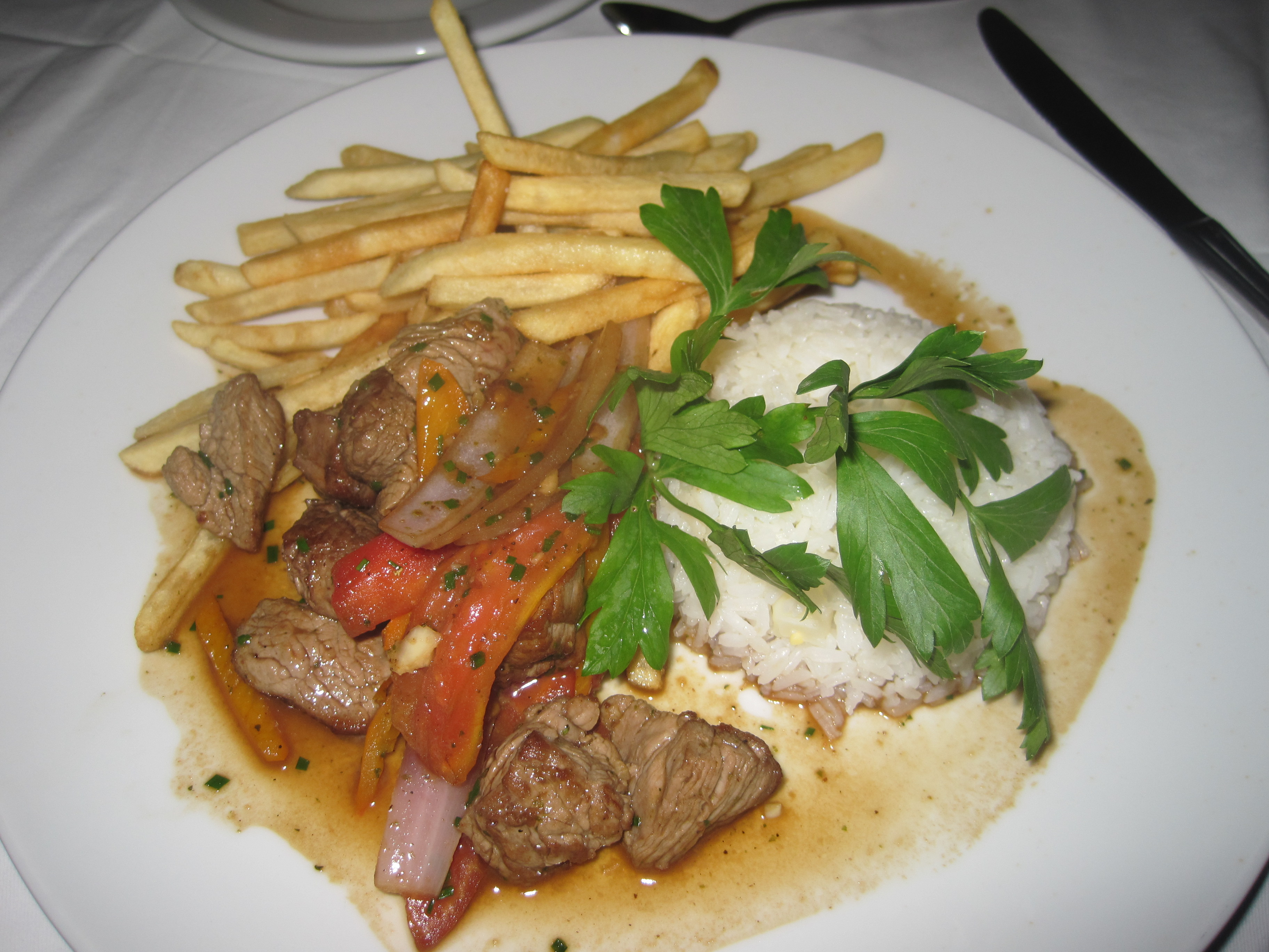 Lomo saltado de la Tiendecita Blanca Miraflores, Lima, Peru